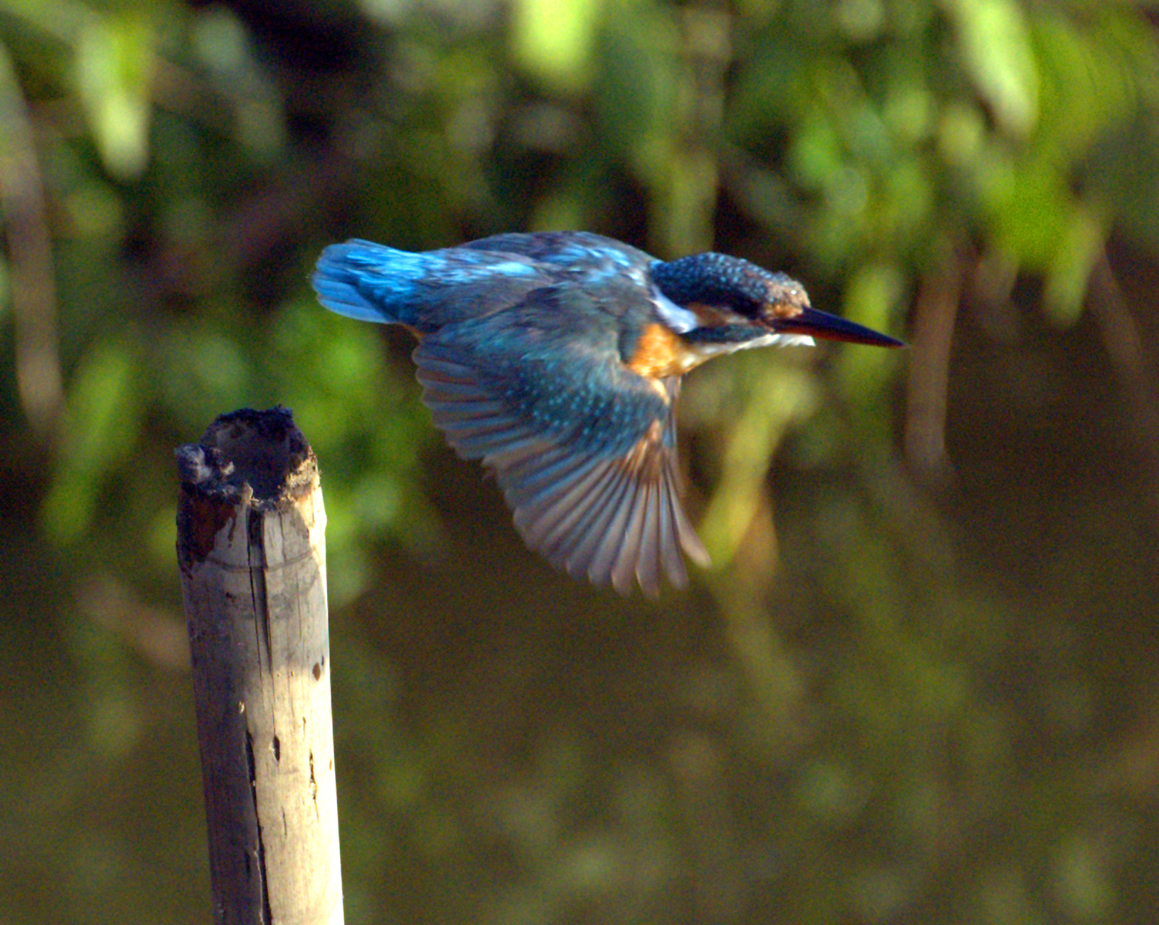 Kingfisher Alcedo atthis